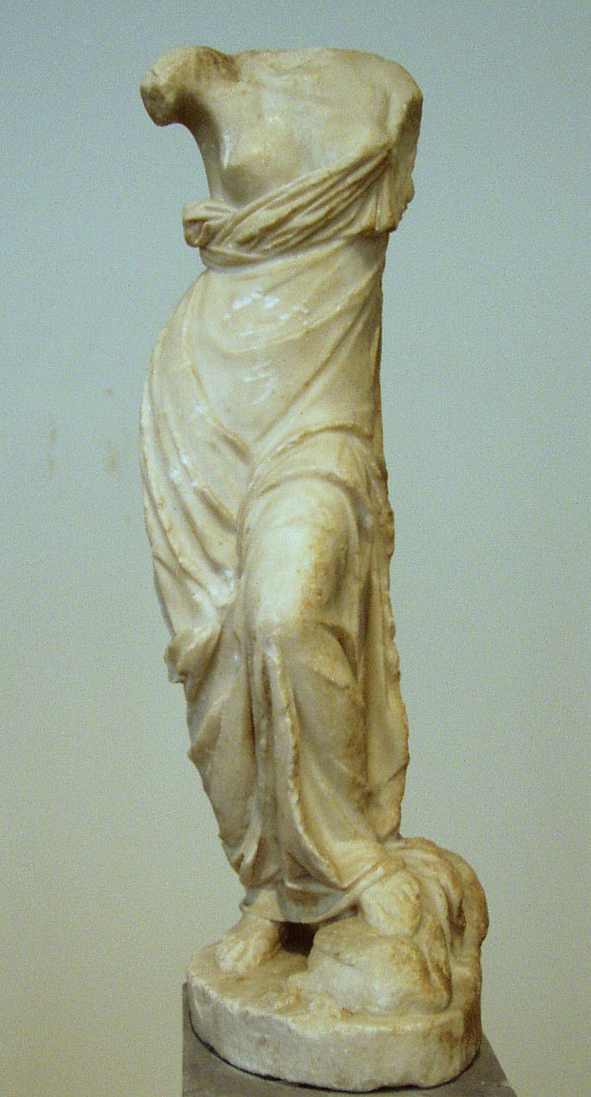 Statuette of Aphrodite at the NAMA, Room 30, Nr 3248.